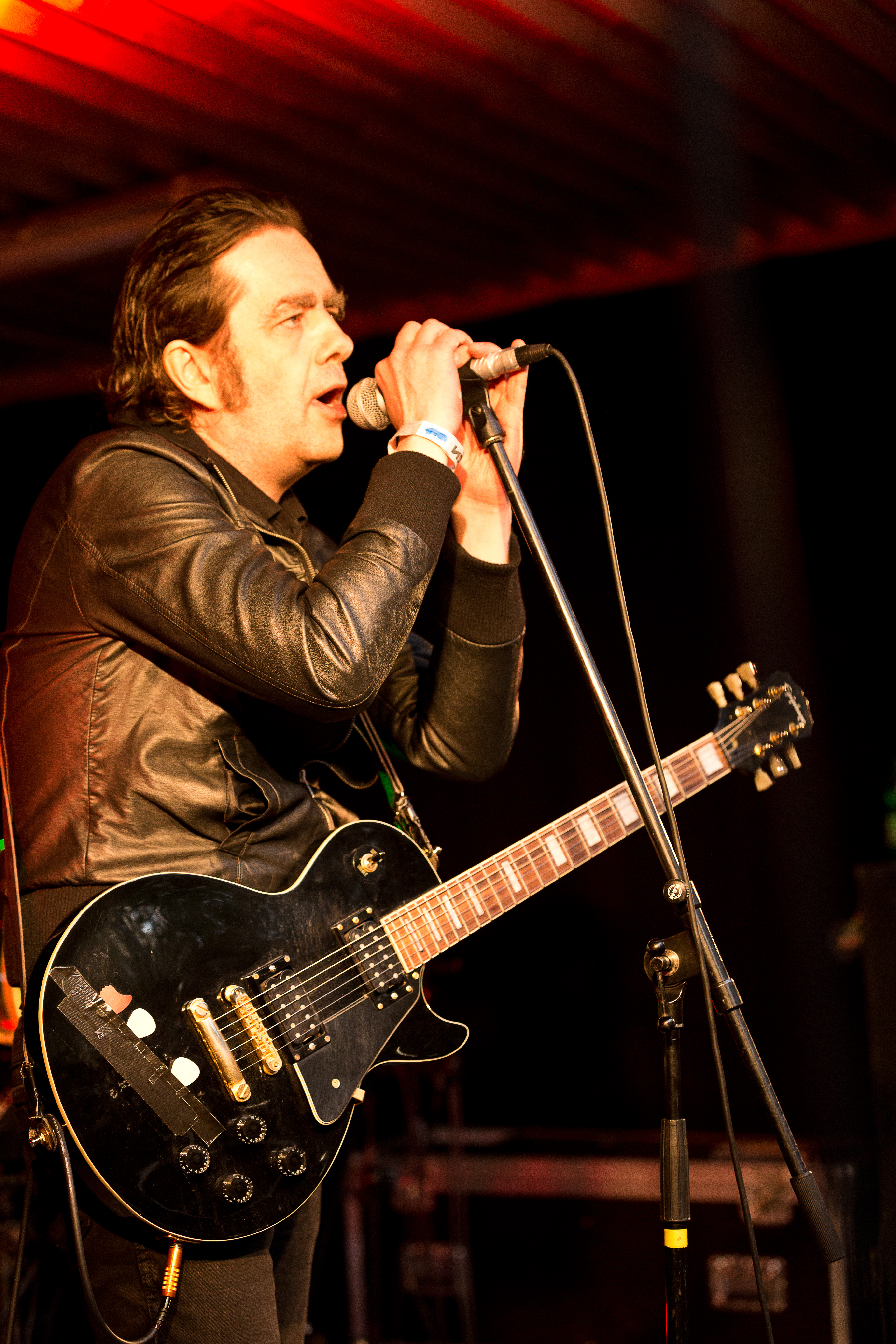 The German post punk band No More at the Nocturnal Culture Night 10 2015 in Deutzen/Germany.